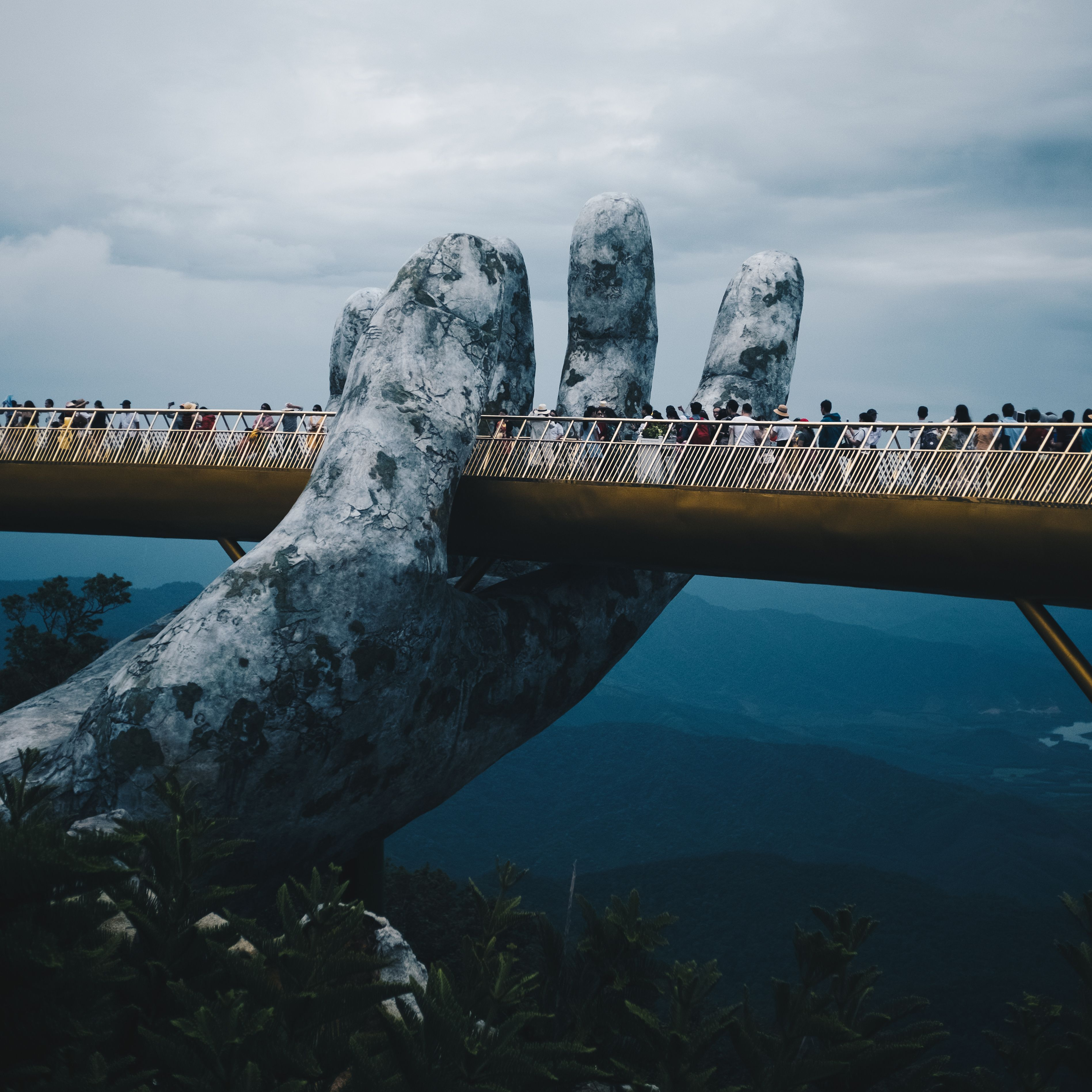 Cầu Vàng (Golden Bridge) in July 2018.